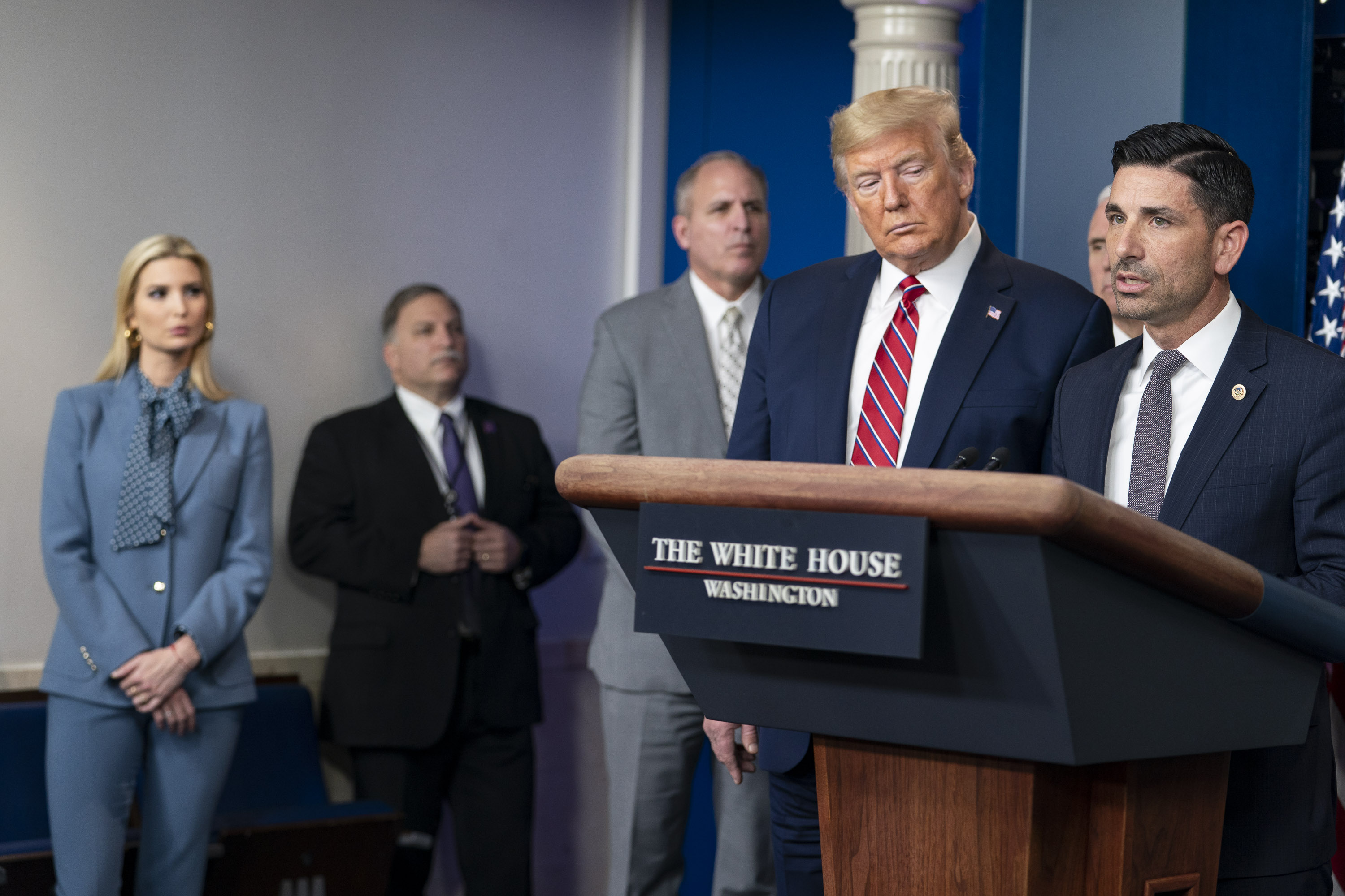 President Donald J. Trump listens as Acting Secretary of Homeland Security Chad F. Wolf delivers remarks at the White House Coronavirus Task Force coronavirus (COVID-19) update briefing Friday, March 20, 2020, in the James S. Brady Press Briefing Room of the White House. (Official White House Photo by Shealah Craighead)